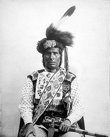 One-Called-From-A-Distance (Medwewinind), a Chippewa from White Earth Reservation, Minnesota; half-length, seated, showing beadwork sash and vest